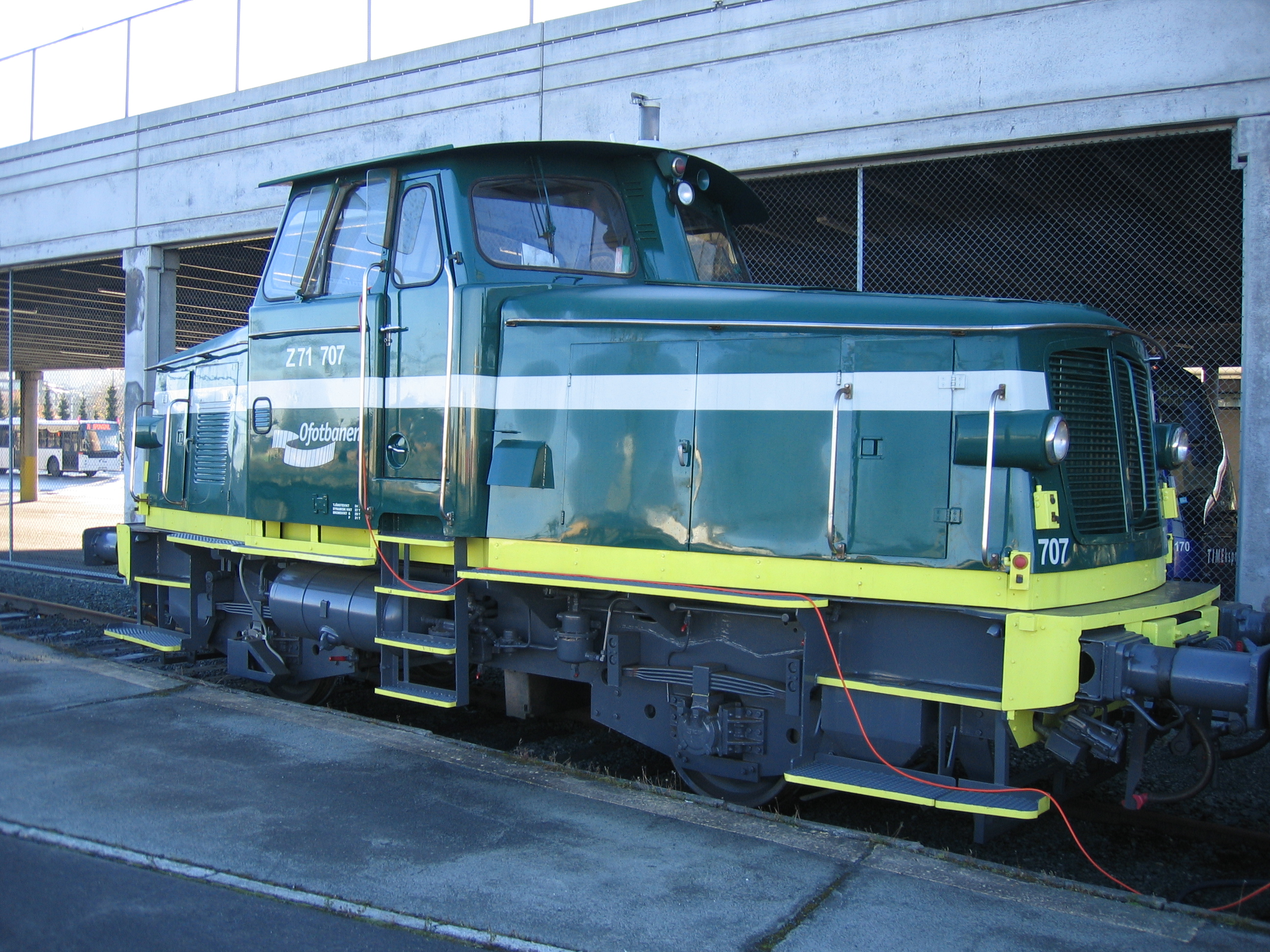 A Z71-shunter in Trondheim, Norway.